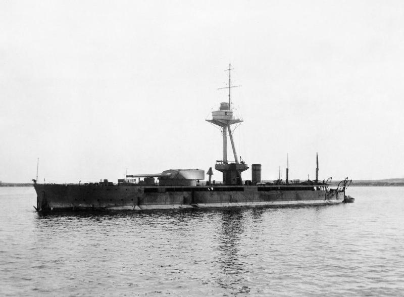 British monitor HMS HAVELOCK.